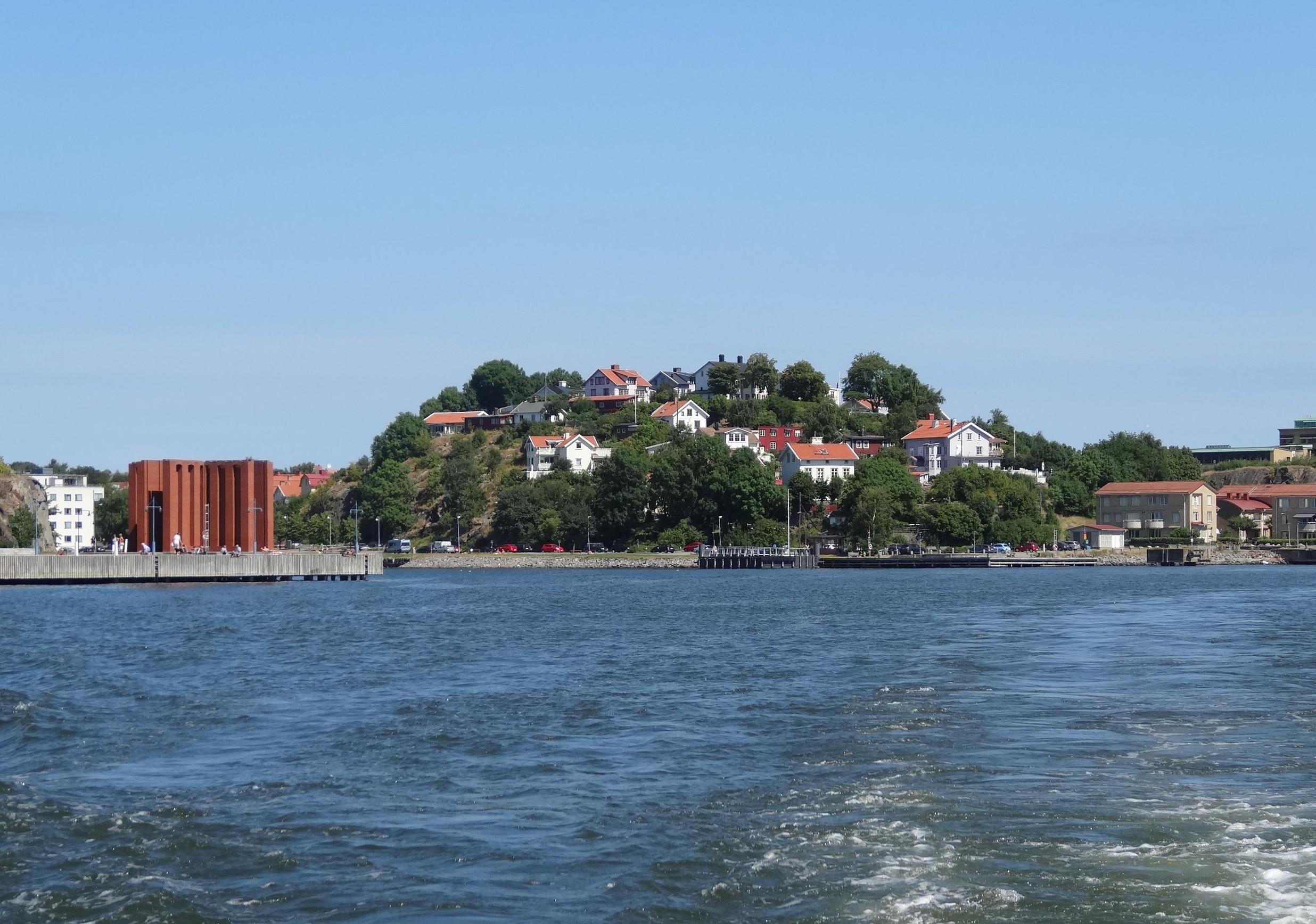 Slottsberget, Gothenburg Sweden from southwest. Location of Lindholmen castle during the early 14th century.